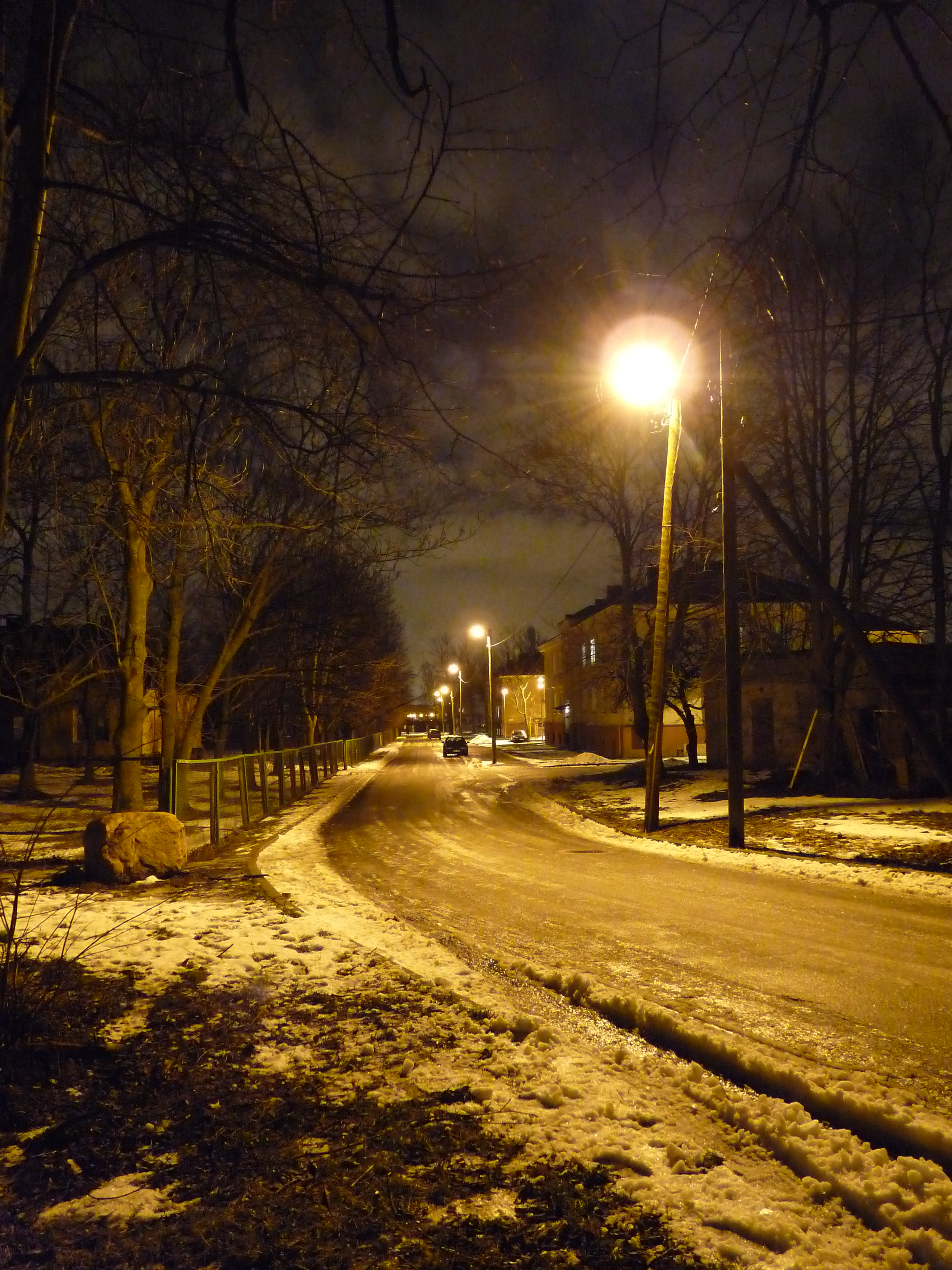 Alasi street in Tallinn, Estonia